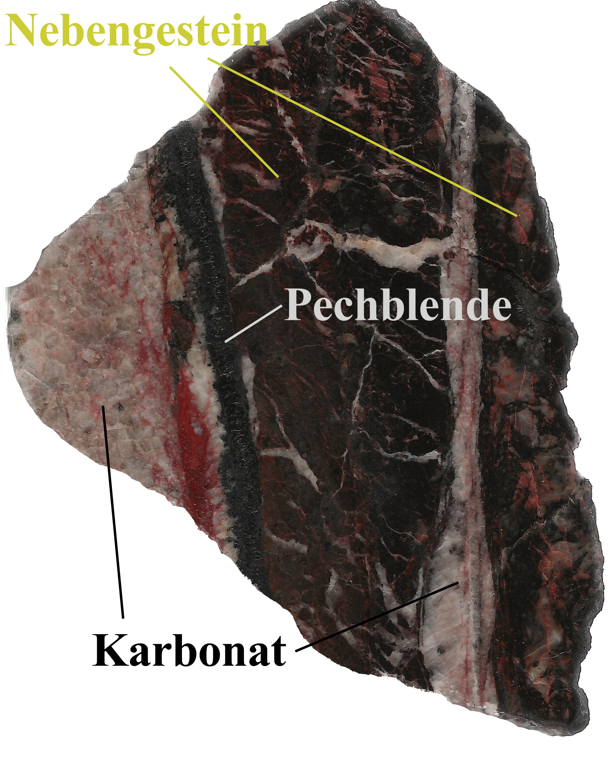 Uranium ore from the Schlema-Alberoda deposit in the Erzgebirge Mts, Germany: a vein with pitchblende (Pechblende) and carbonate (Karbonat) in hematite altered wallrock (Nebengestein)